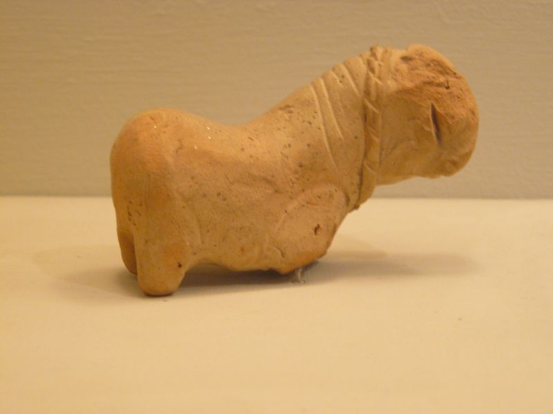 Votive Image of Bull, ca. 2000 B.C.E. Hand-modeled terracotta. Brooklyn Museum. Photographer: Trish Mayo